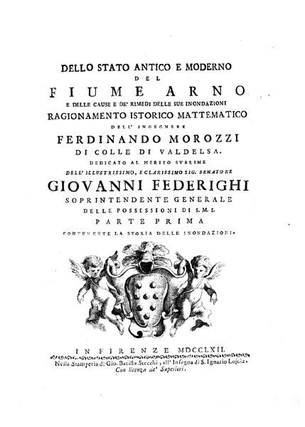 Title page